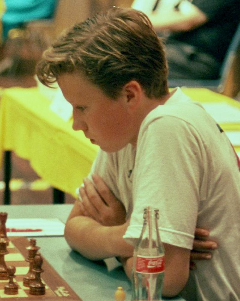 Jurij Tihonov, World Youth Chess Championship (under 14) 1992 at Duisburg, Photographer Gerhard Hund.